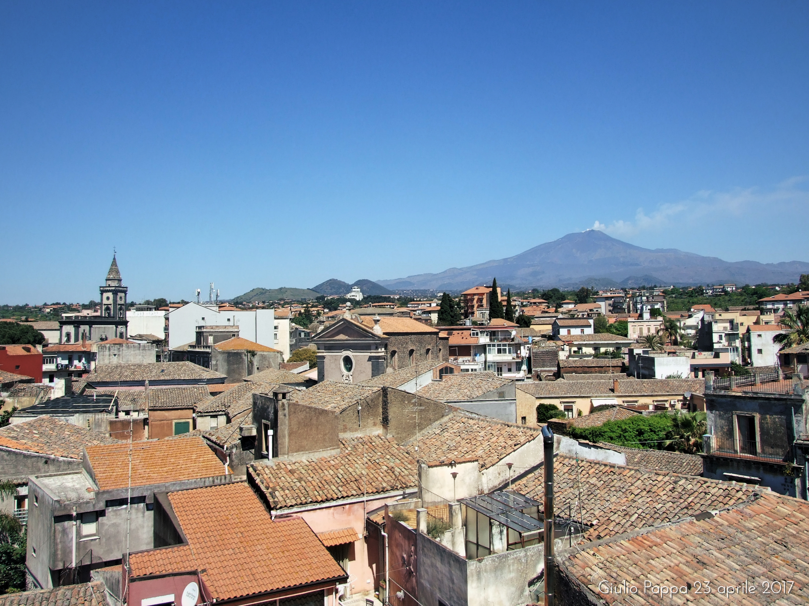 Etna seen from the municipality of Mascalucia in the Metropolitan City of Catania.